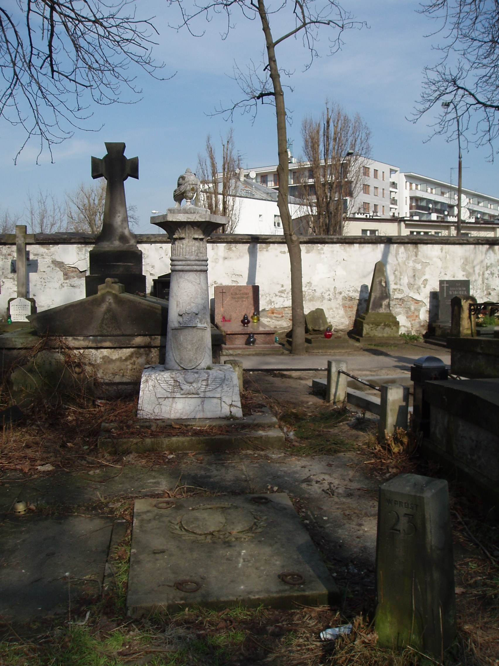 Blumer family grave, Powązki, Warsaw